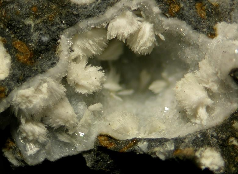 Gonnardite Locality: Blackhead Quarry, Dunedin, Otago, South Island, New Zealand White tuffs of Gonnardite. Field of view 5 mm. Specimen and photo Leon Hupperichs.